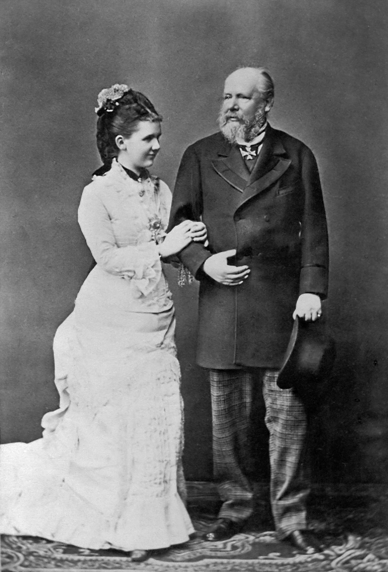 King William III and Queen Emma of the Netherlands. Postcard.